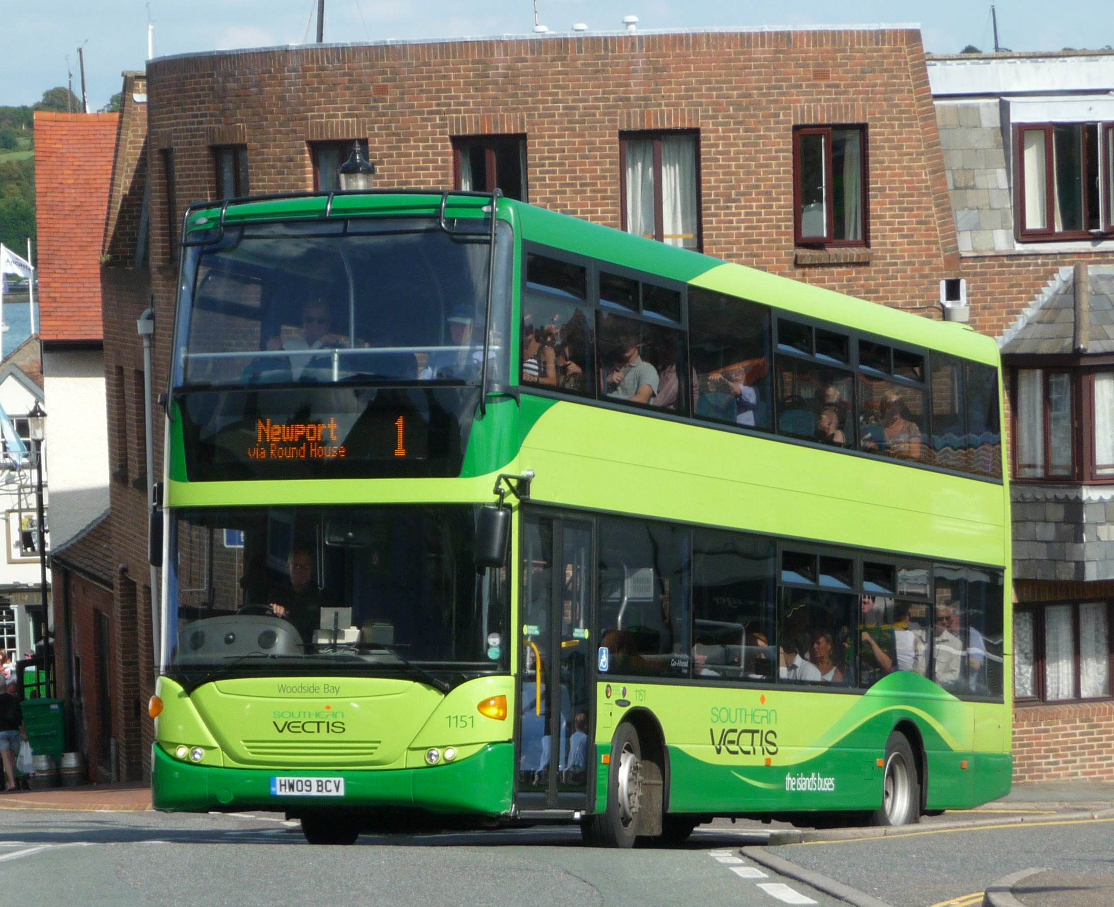 Southern Vectis 1151 Woodside Bay (HW09 BCV), a Scania CN270UD 4x2 EB OmniCity (built 2009), in Cowes, Isle of Wight, on route 1. Because it was Cowes Week at the time, route 1 was not serving the Red Jet terminal, meaning double-deckers could be used. It is seen here turning from Carvel Lane, left, up into Terminus Road.